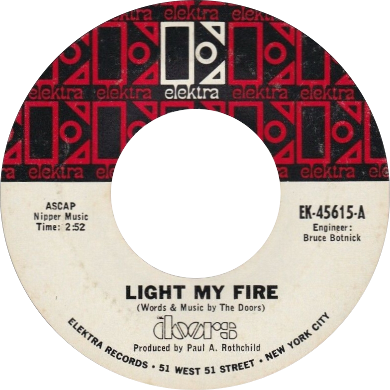 One of side-A labels of the 2nd or 3rd pressing of "Light My Fire" US vinyl single release by The Doors